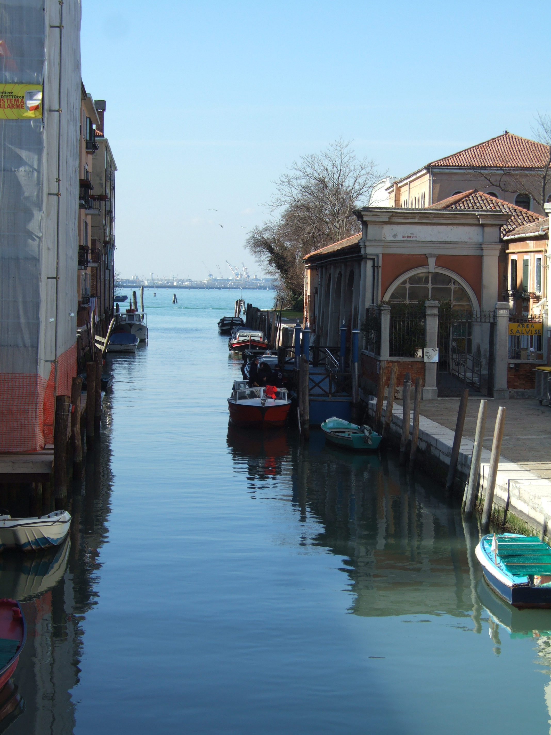 Rio di S. Alvise, view from Ponte Bonaventura, background Porto Marghera (Venice)